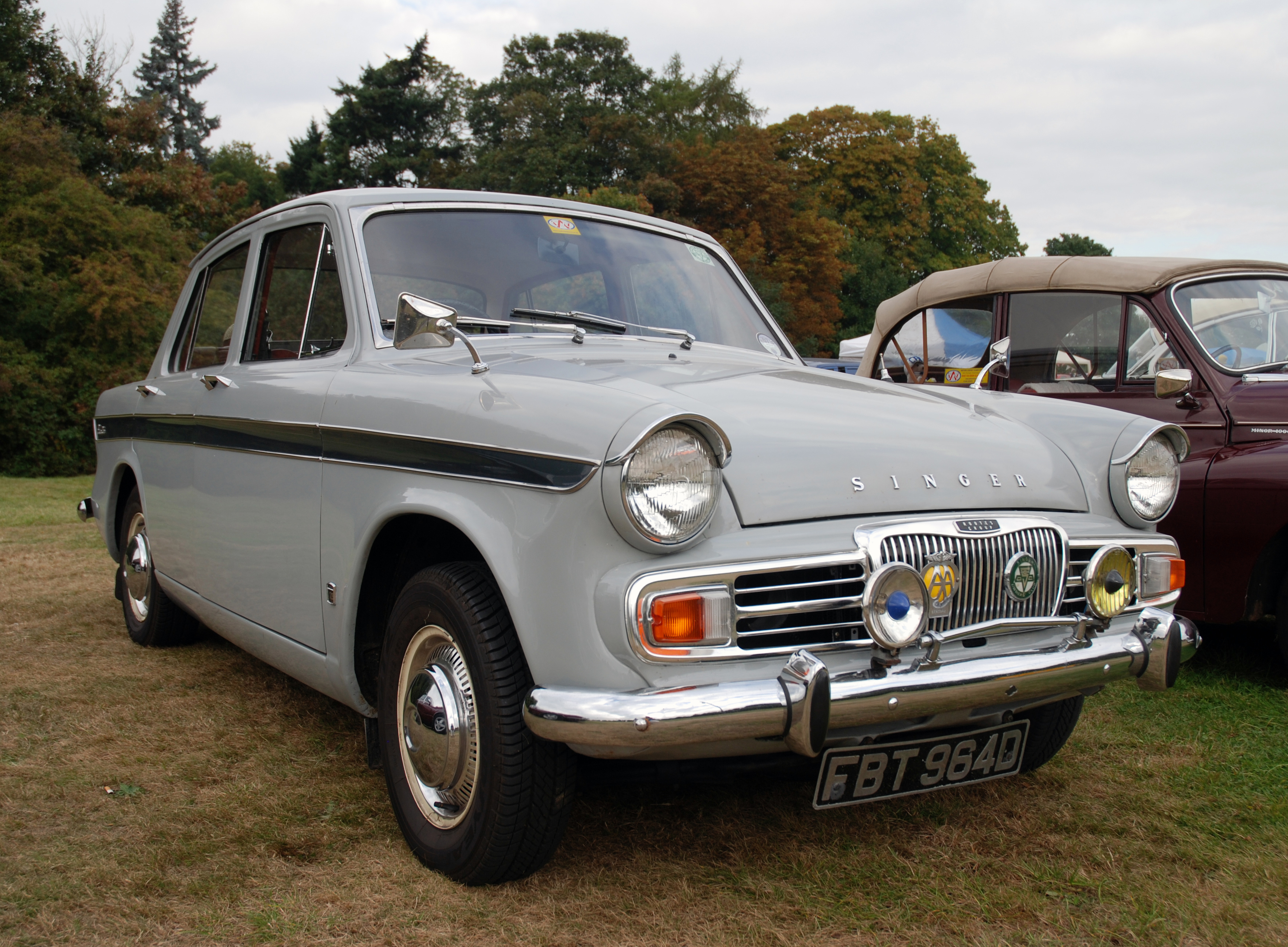 Croxley Green,Sep 2009